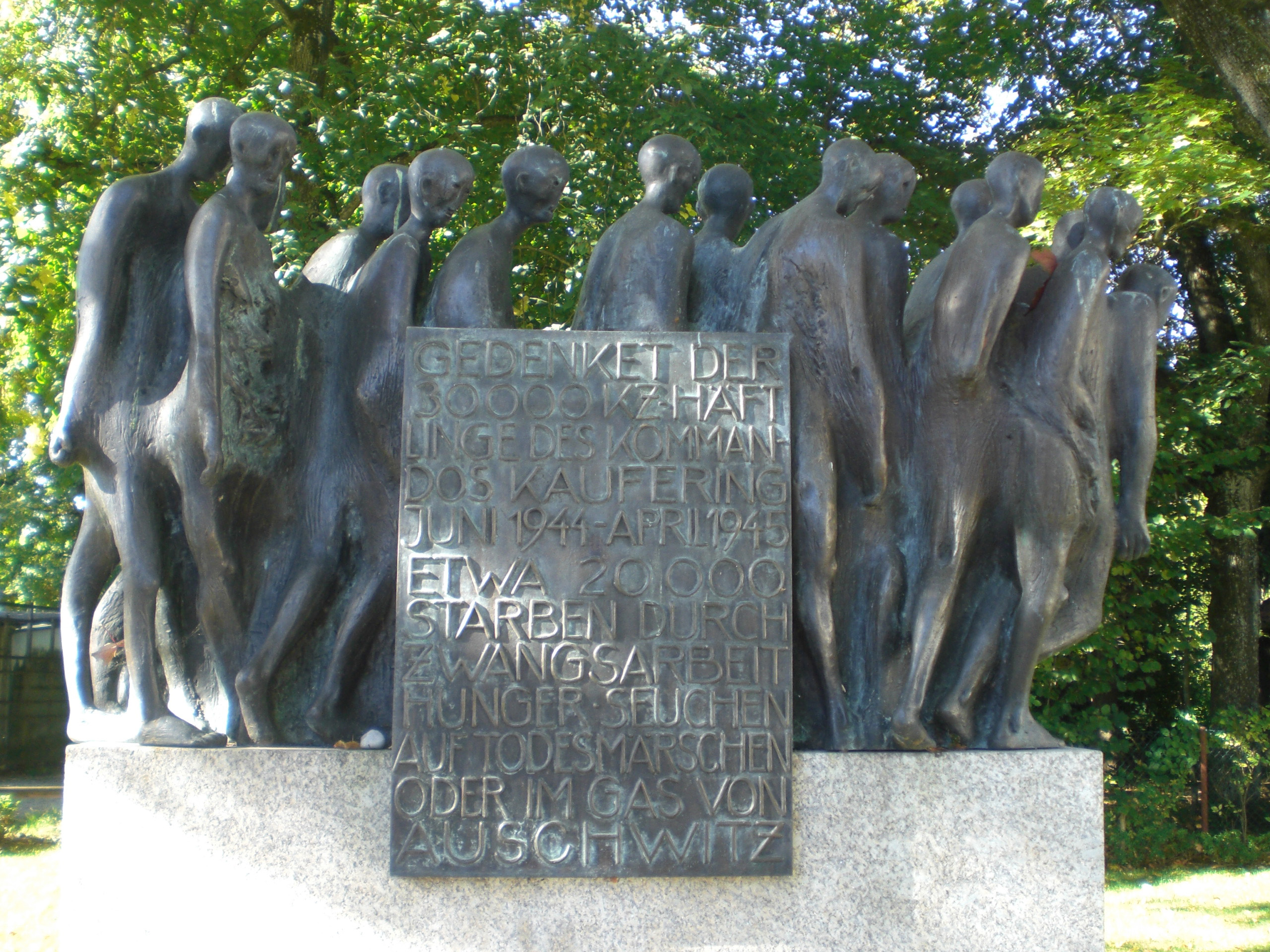 Memorial for KZ victims Kaufering at the train station Kaufering near Landsberg erected in 2010 inscription: remember the 30,000 inmates of the Kaufering command June 1944 - April 1945 About 20,000 died of forced labor, hunger, disease, death marches, or in the gas of Auschwitz.